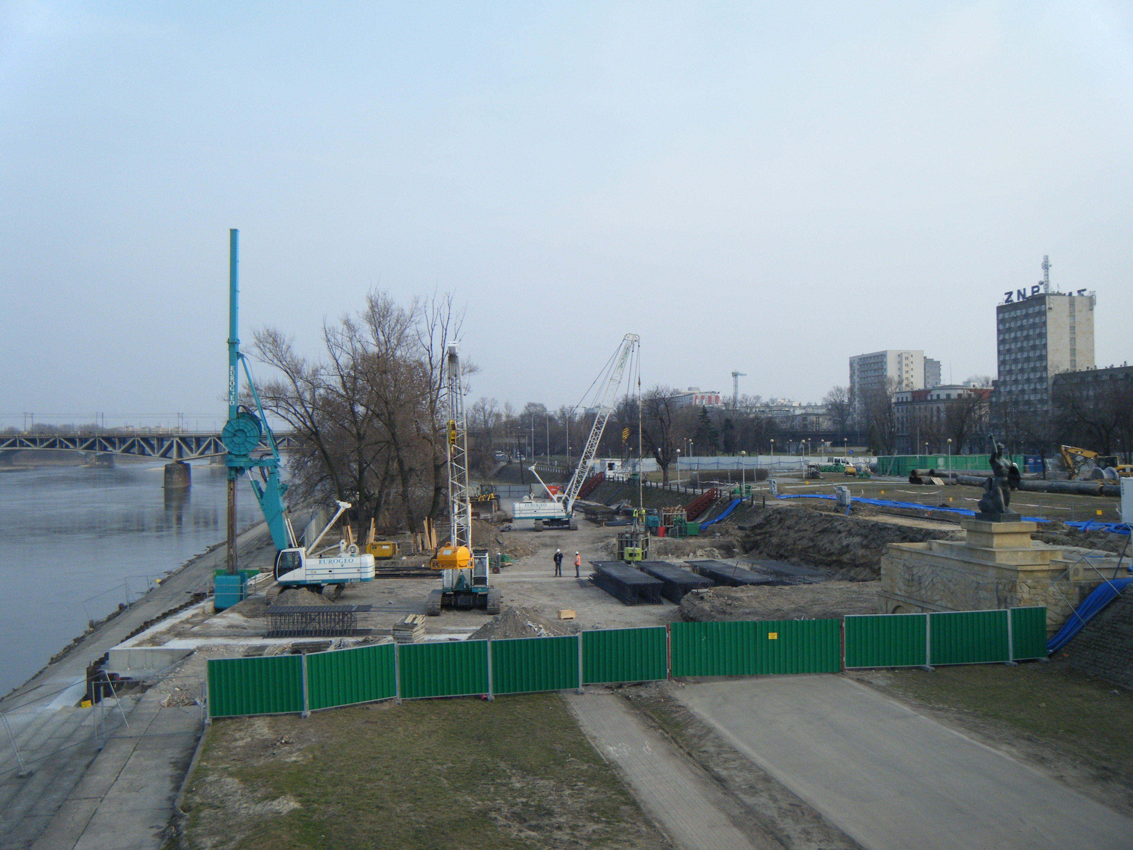 Powiśle metro station (under construction) in Warsaw